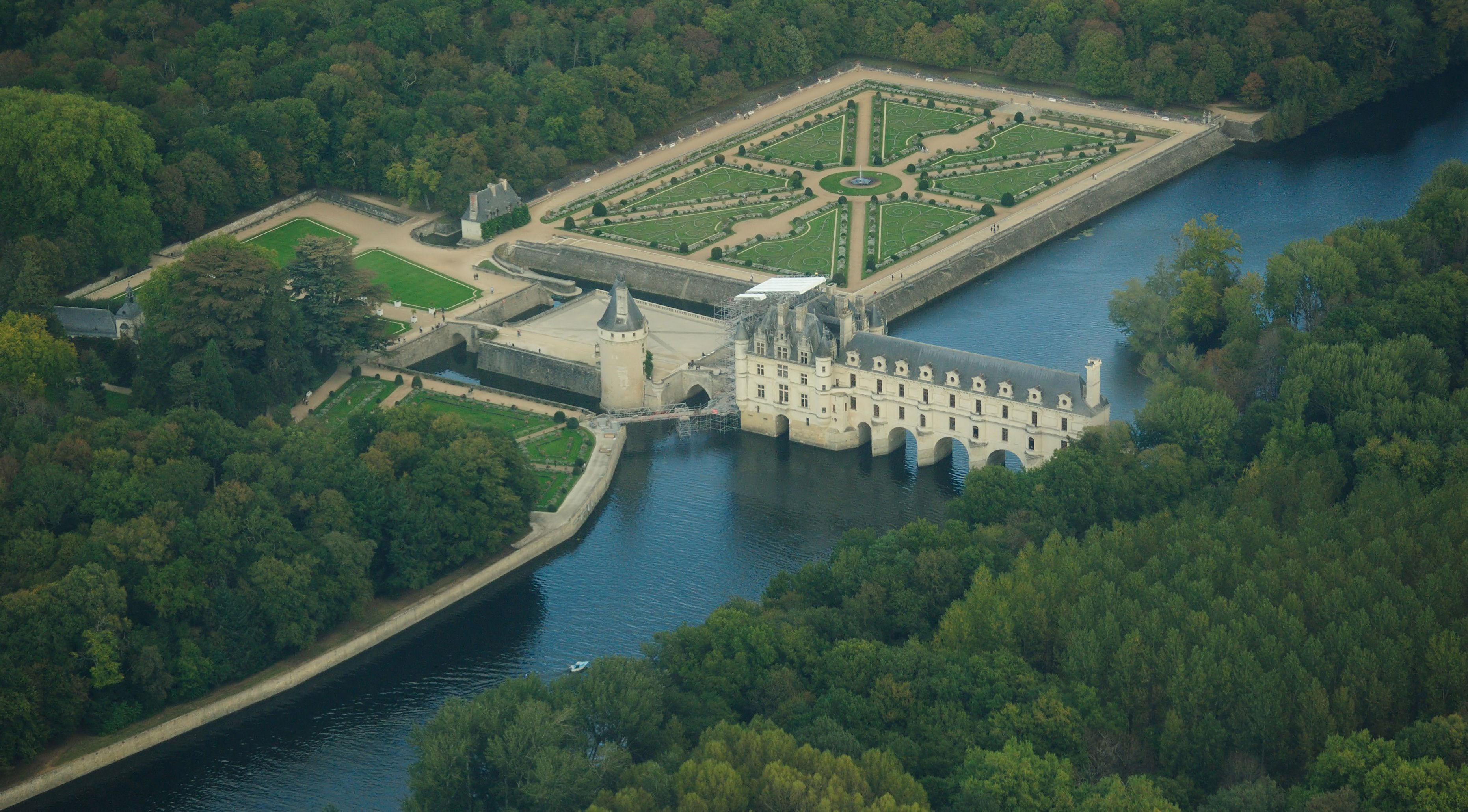 Aerial view of Chenonceau castle on the river Cher at Chenonceaux (Indre-et-Loire department, France). Nikon D60 f=60mm f/5.6 at 1/500s ISO 400. Processed using Nikon ViewNX 1.3.0 and GIMP 2.6.6.